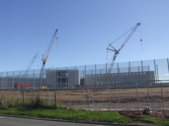 Featherstone 2